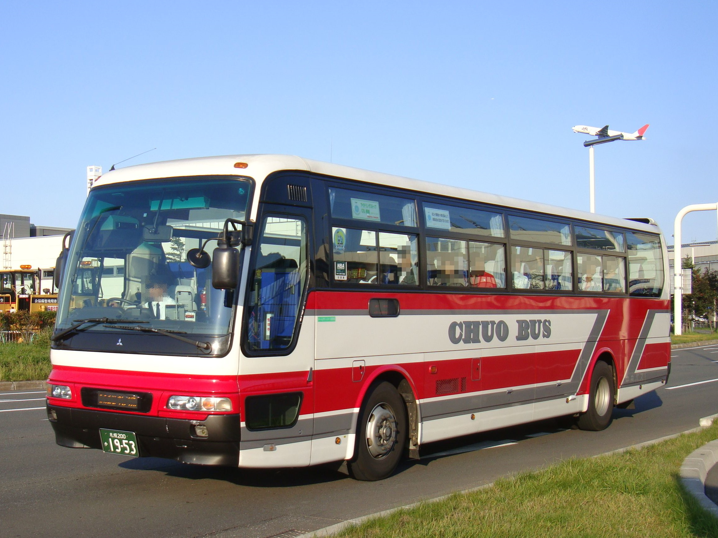 Sapporo to New Chitose Airport